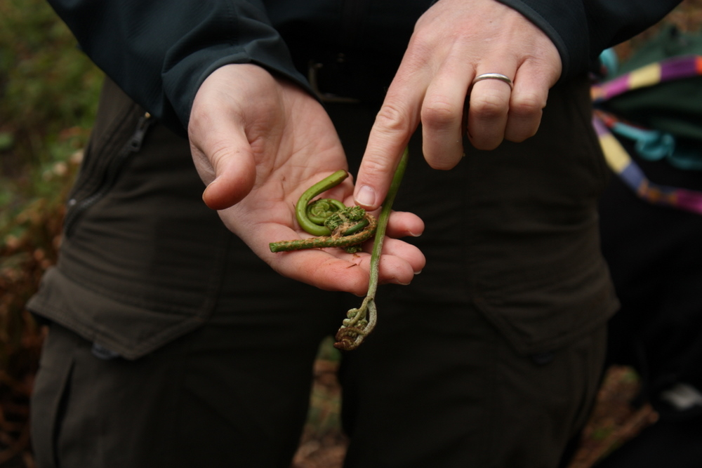 Langdon compares a variety of fiddleheads. On the left is the rubbed clean lady fern fiddlehead. On right is the bracken fern fiddlehead. I don't have my notes on the middle one, I believe it was a wood fern of some sort and probably not worth eating based on this blog post from Langdon.